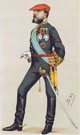 Caricature of the Carlist pretender, Charles VII aka Carlos, Duke of Madrid. Caption read "Legitimacy".